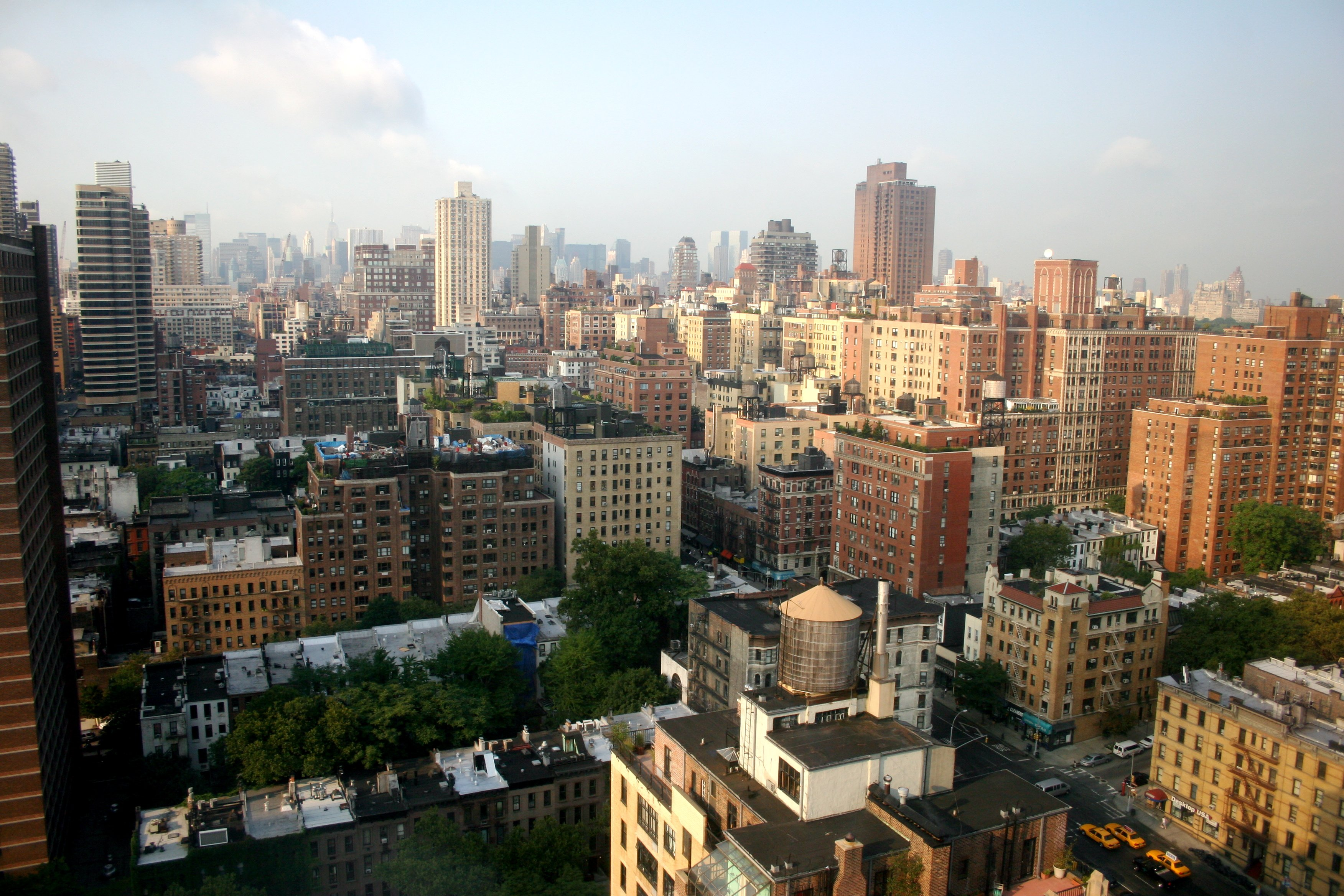 View of the Upper East Side, New York, from 96th Street residential tower at Third Ave..